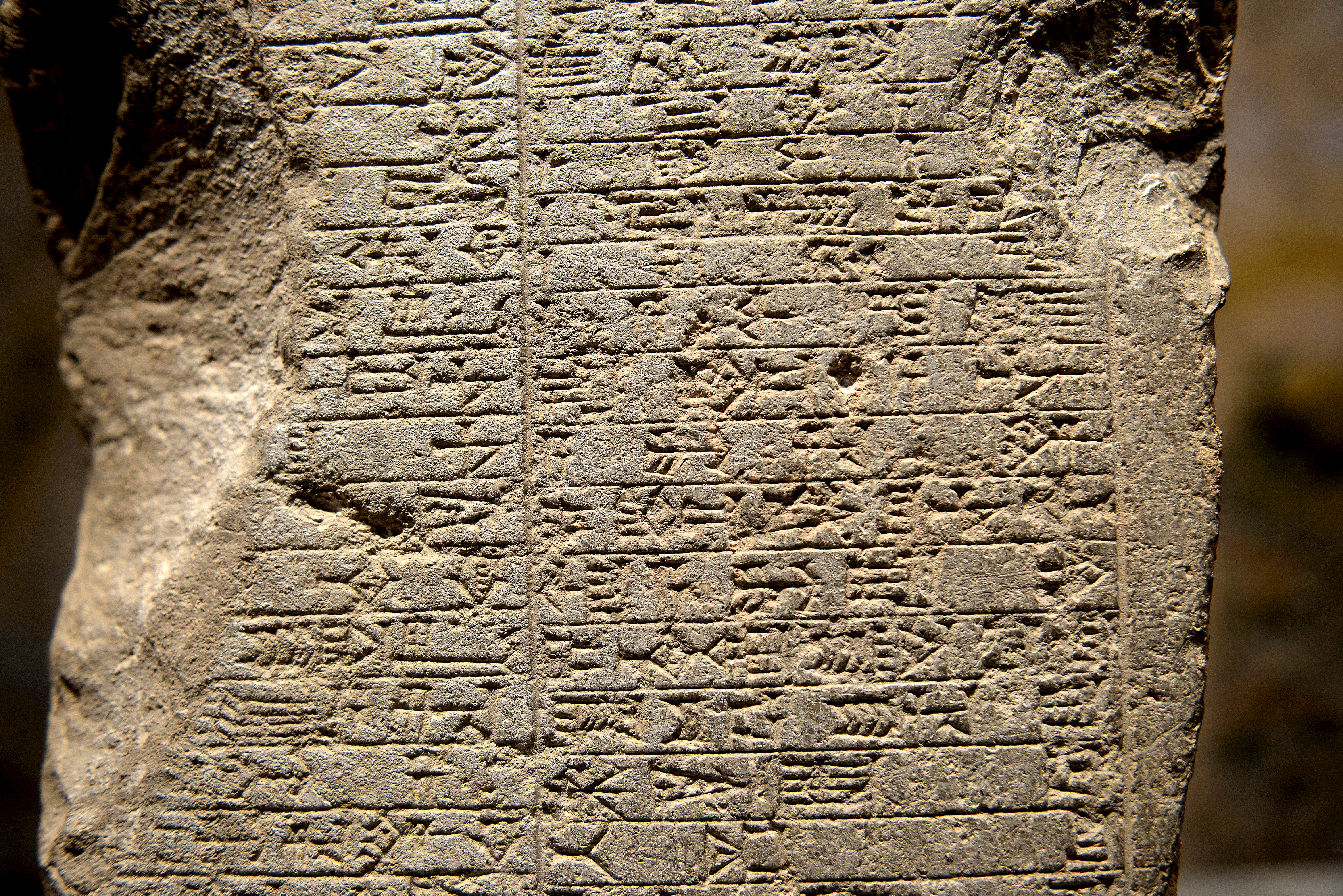 A close-up view the stela of Iddi-Sin, king of Simurrum. Old-Babylonian period 2003-1595 BCE. The Sulaymaniyah Museum, Iraq.